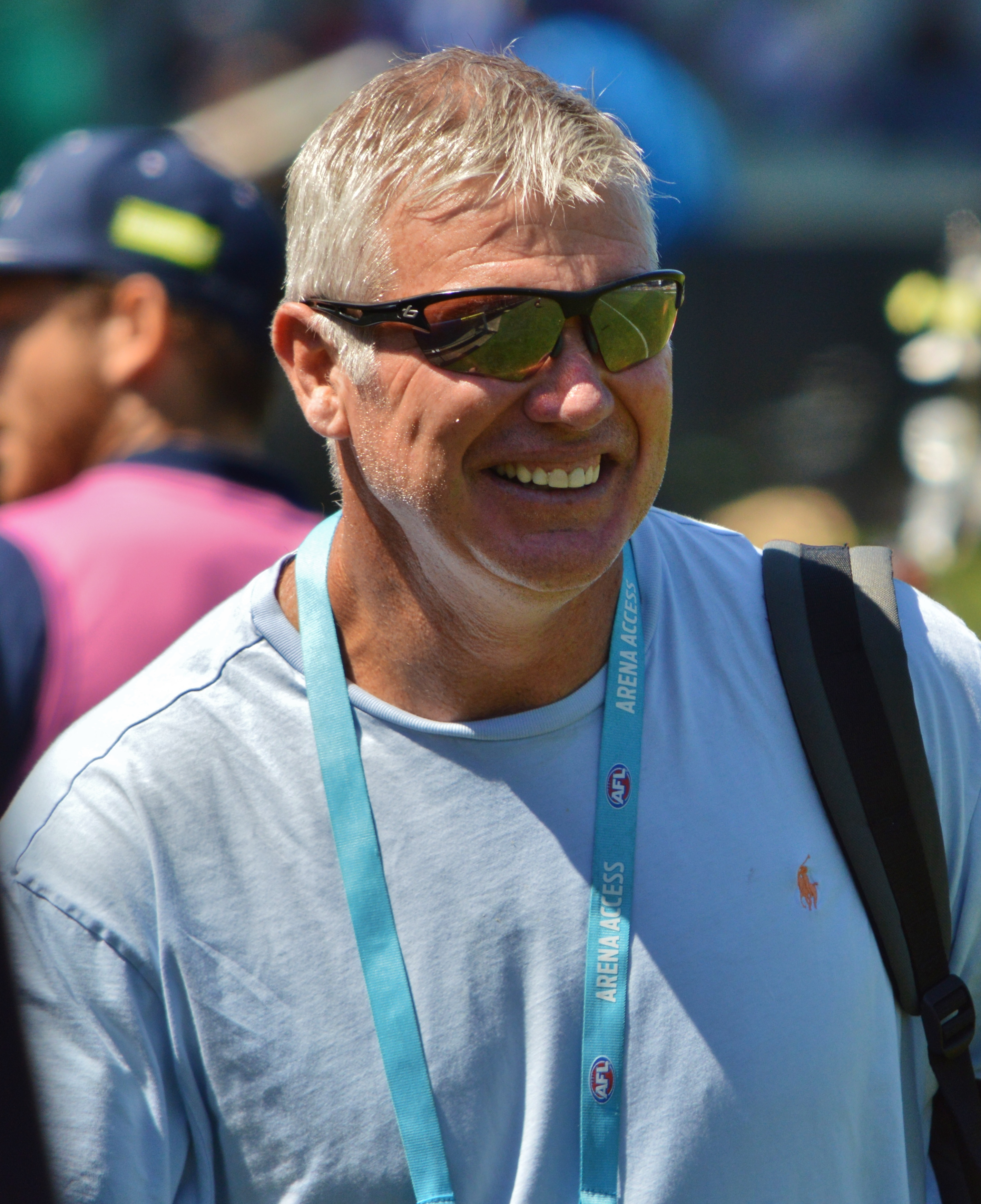 Danny Frawley at a pre-season match in March 2017